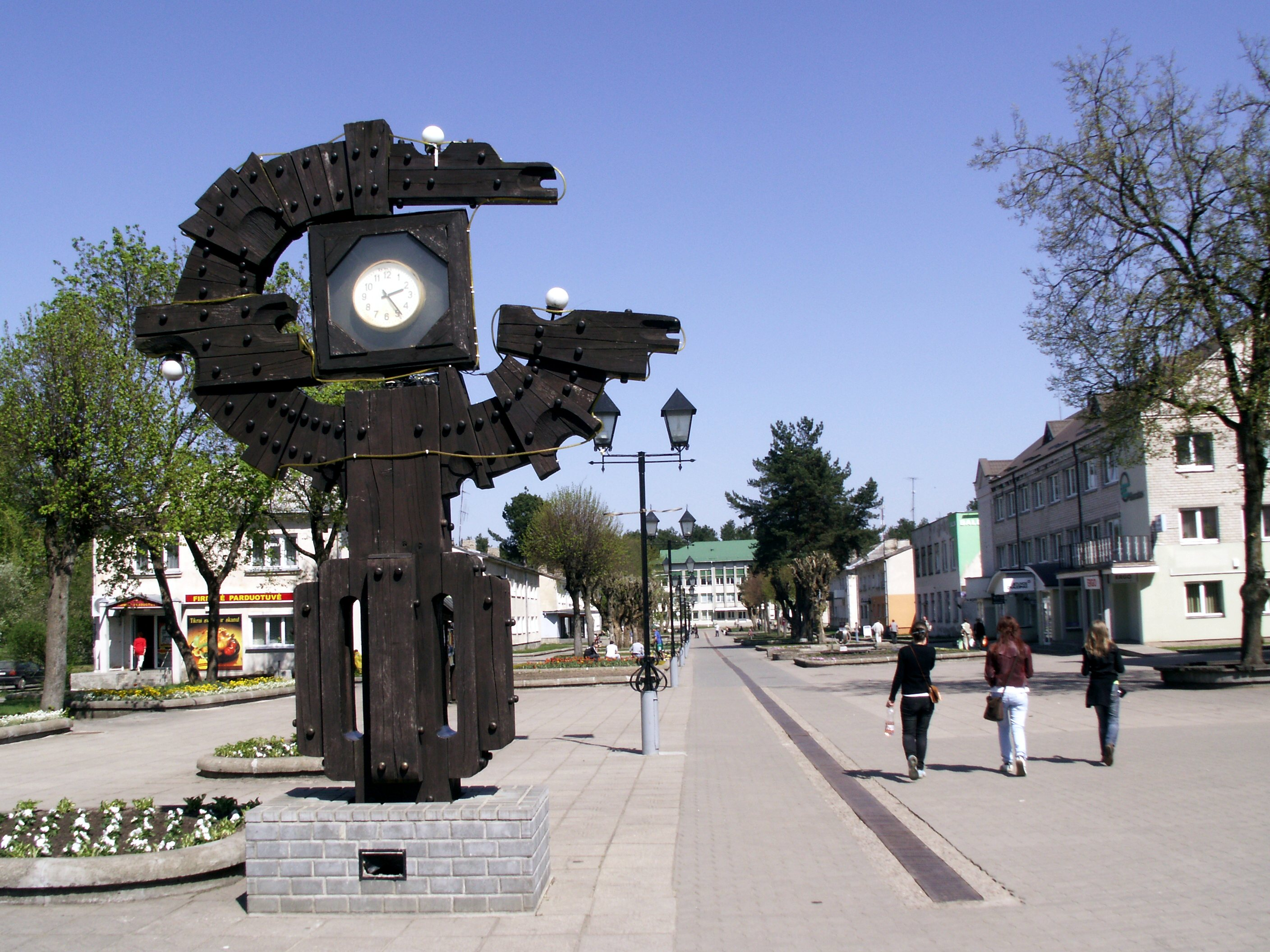 Varėna, Lithuania